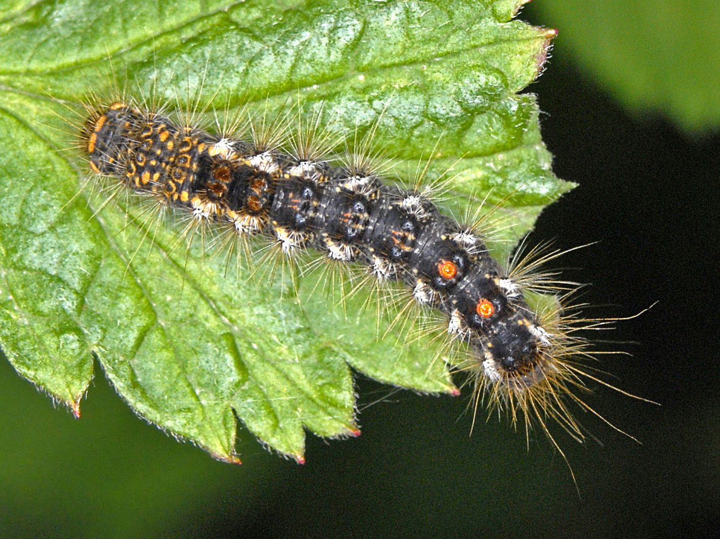 Euproctis chrysorrhoea, caterpillar. Benedicta, Genova, Italy